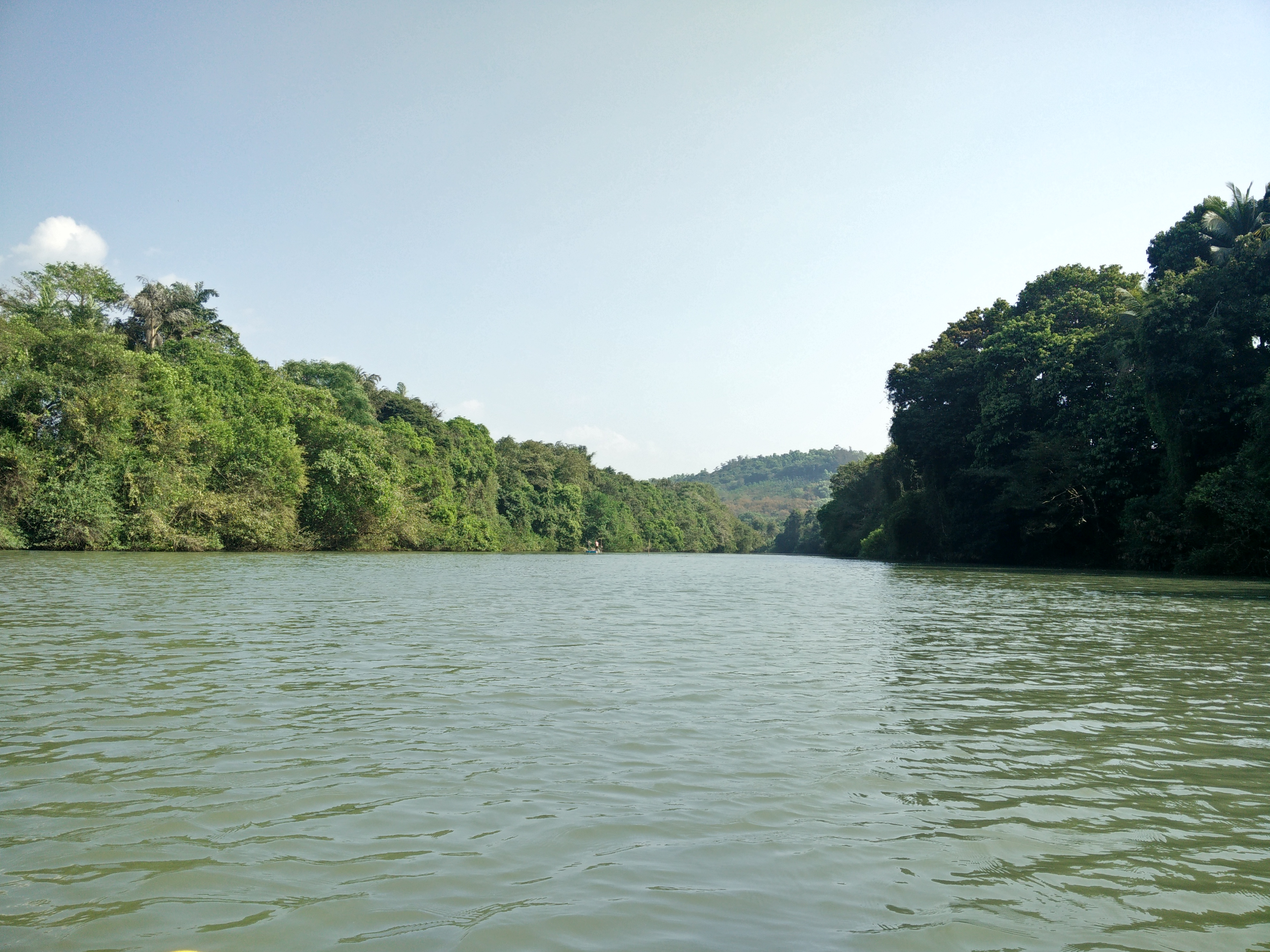 Photo of river Shambhavi